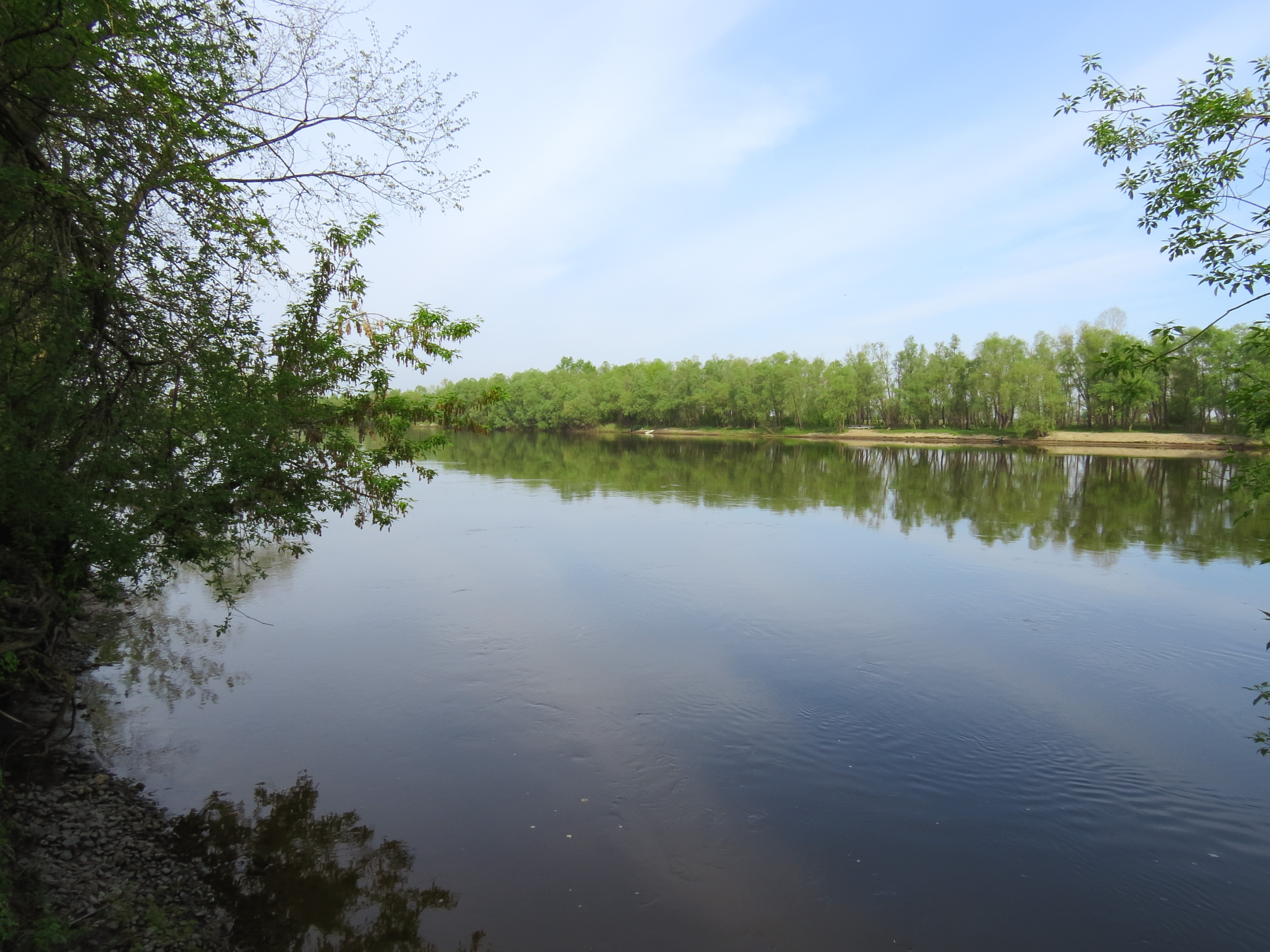 Desna river in Pukhivka, Brovary raion, Kiev oblast, Ukraine